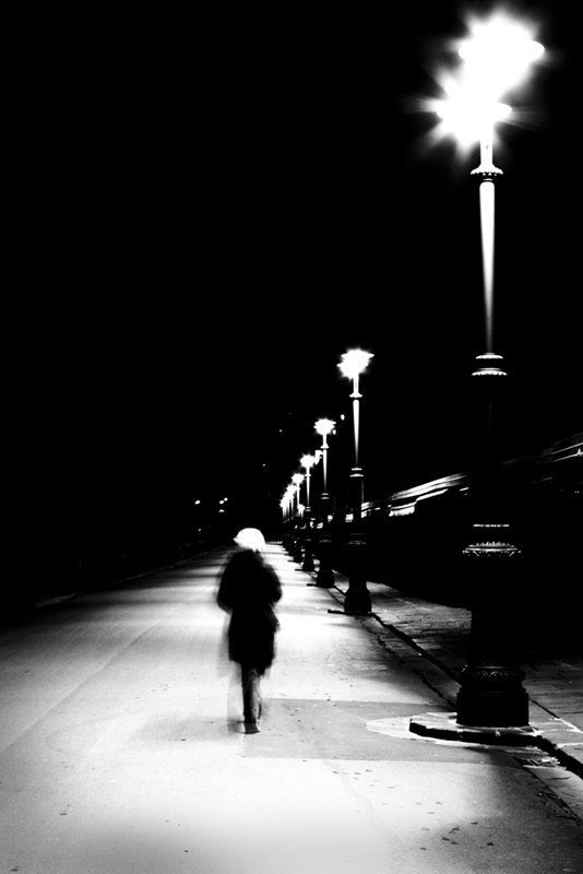 Photograph that inspired "Finalmente soli", a story of Marco Malvaldi